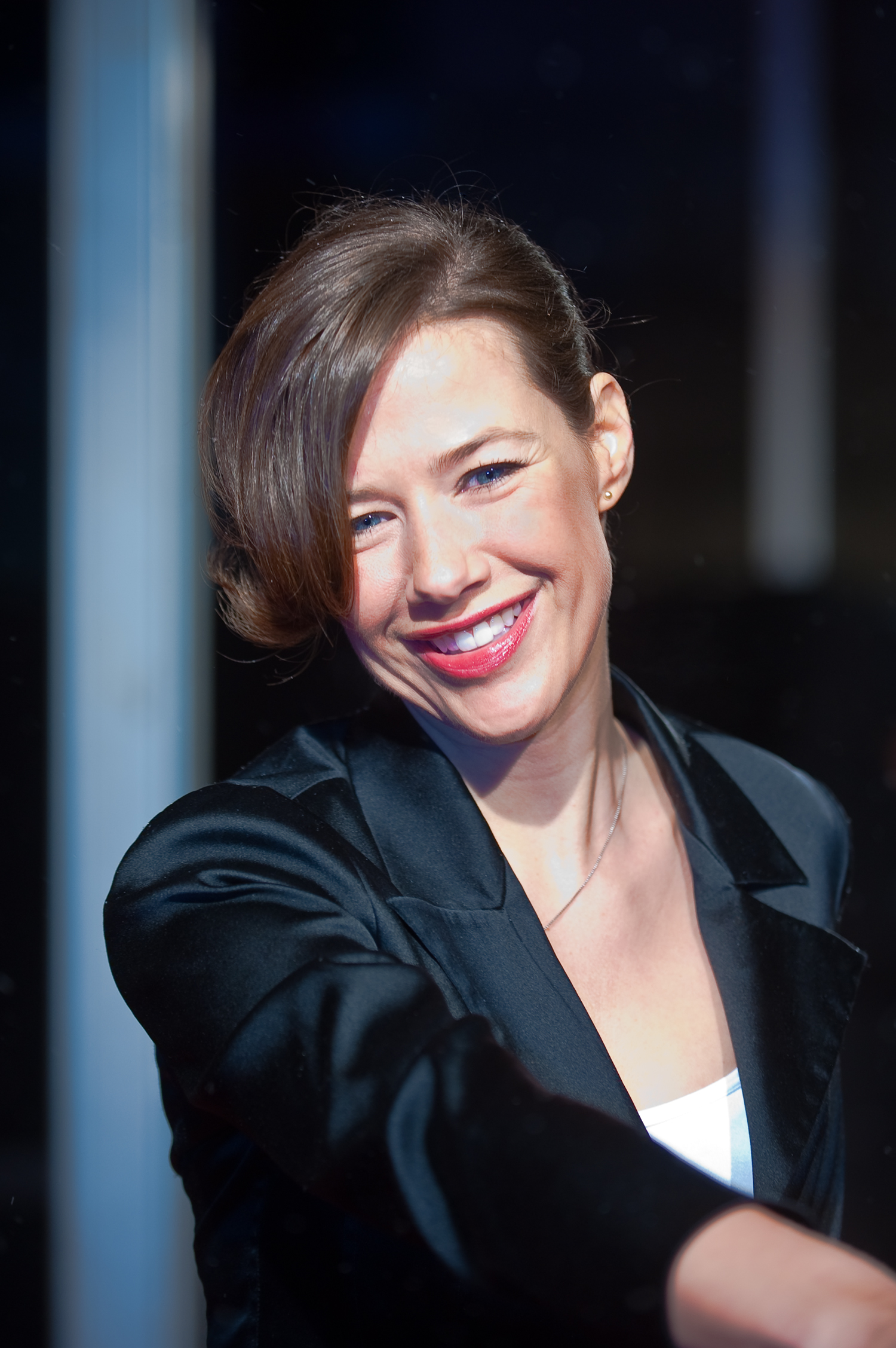 German actress Alexandra Neldel at the BMW Festival Night 2010